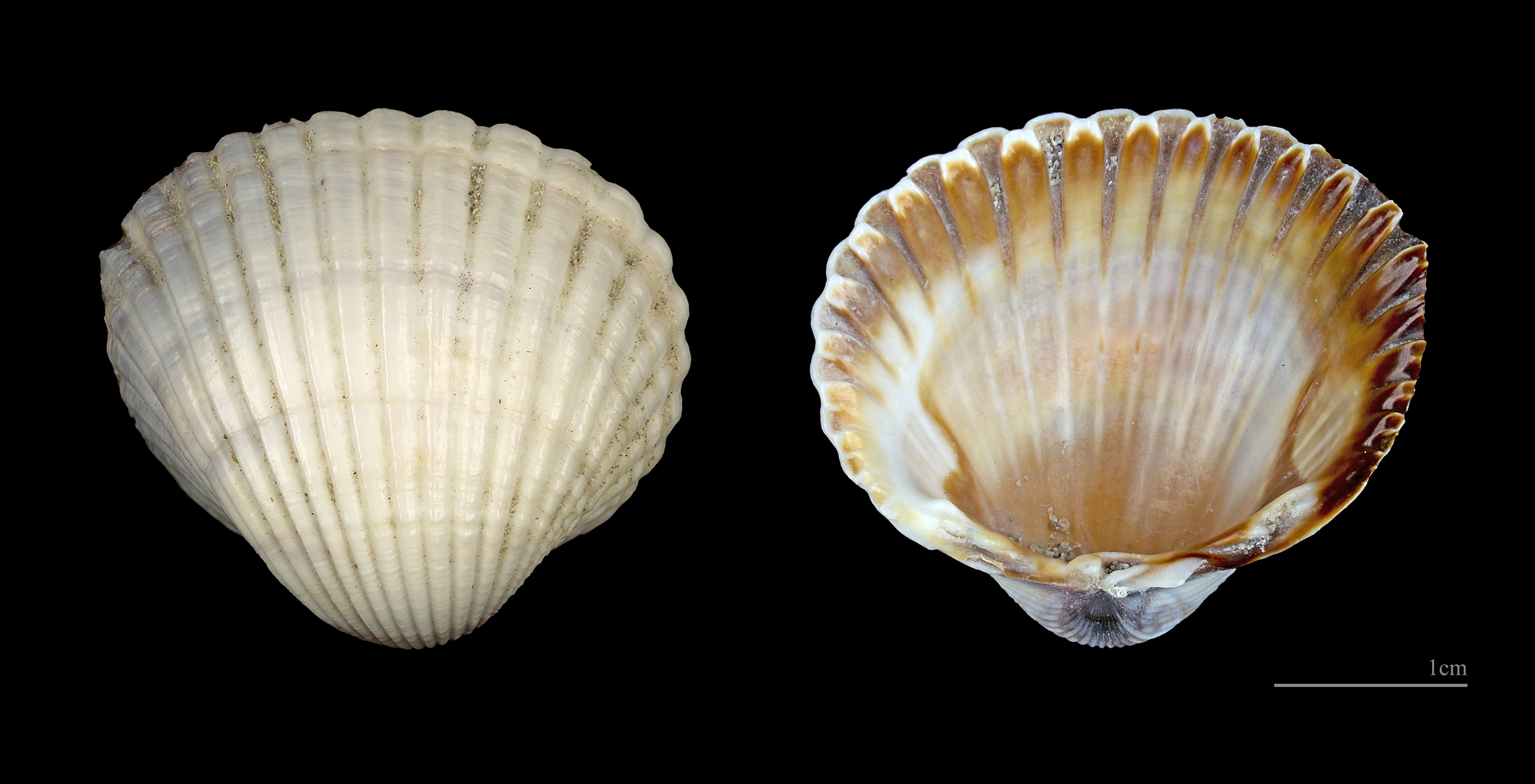 lagoon cockle - two views of the same specimen. Former collection of George Chernilevsky.